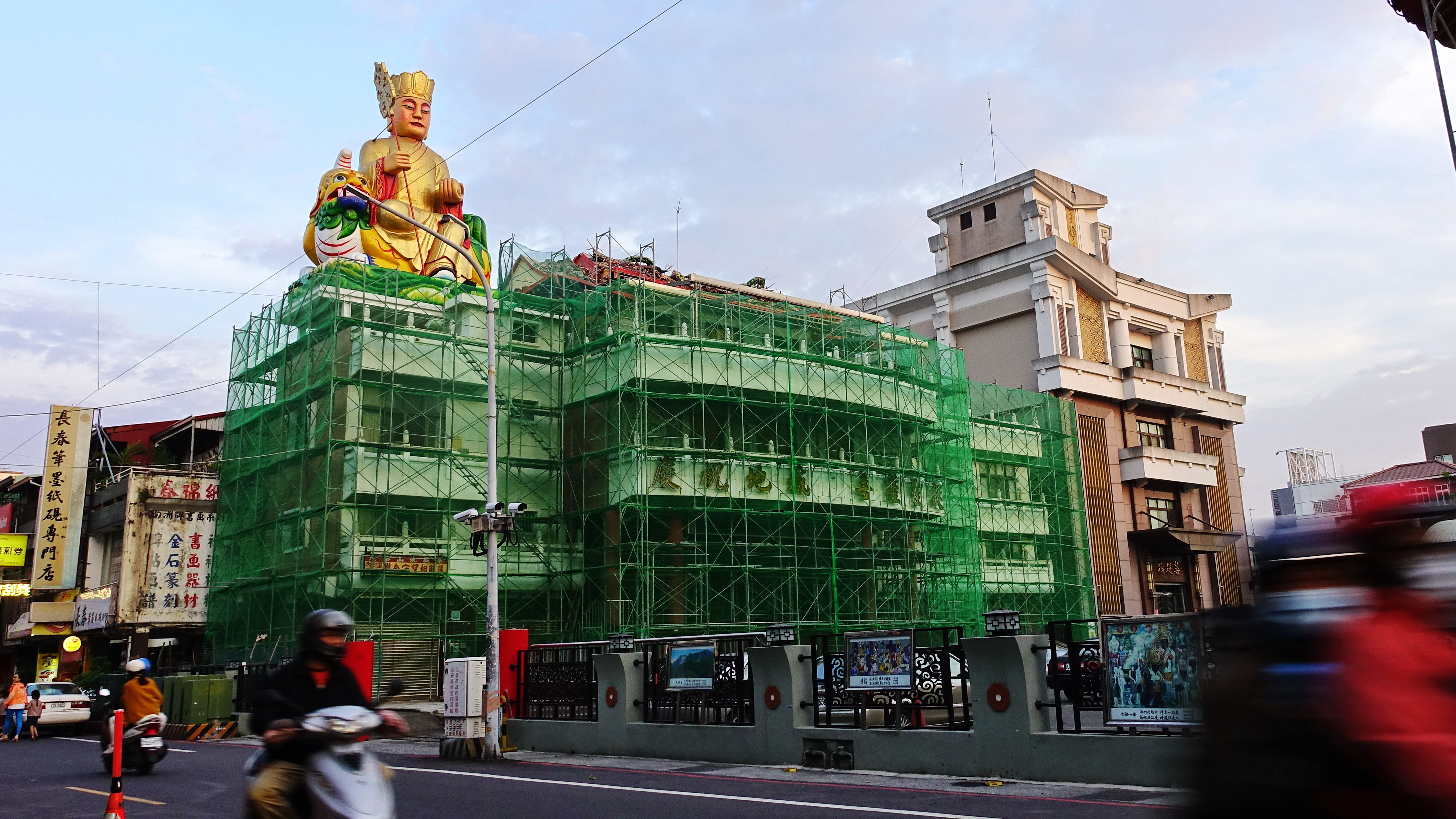 Bodhi Building of the Chiayi Mount Jiuhua Kshitigarbha Temple, Chiayi City, Taiwan.